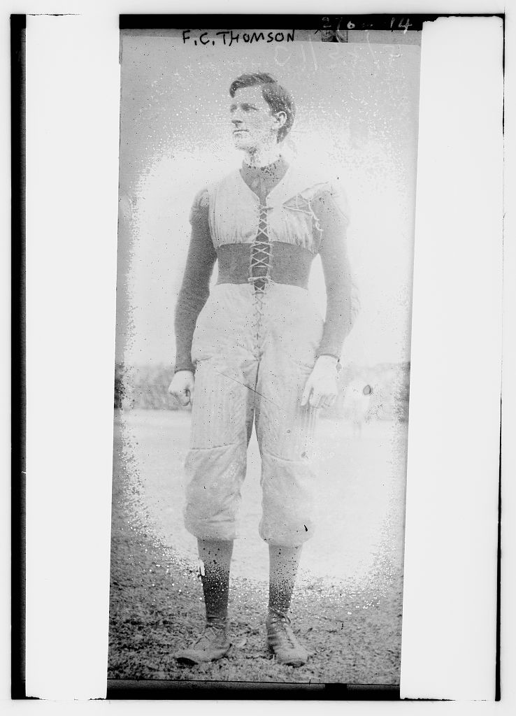 Bain News Service,, publisher. F. C. Thomson [no date recorded on caption card] 1 negative : glass ; 5 x 7 in. or smaller. Notes: Title from unverified data provided by the Bain News Service on the negatives or caption cards. Forms part of: George Grantham Bain Collection (Library of Congress). Format: Glass negatives. Repository: Library of Congress, Prints and Photographs Division, Washington, D.C. 20540 USA, General information about the Bain Collection is available at Persistent URL: Call Number: LC-B2- 2764-14